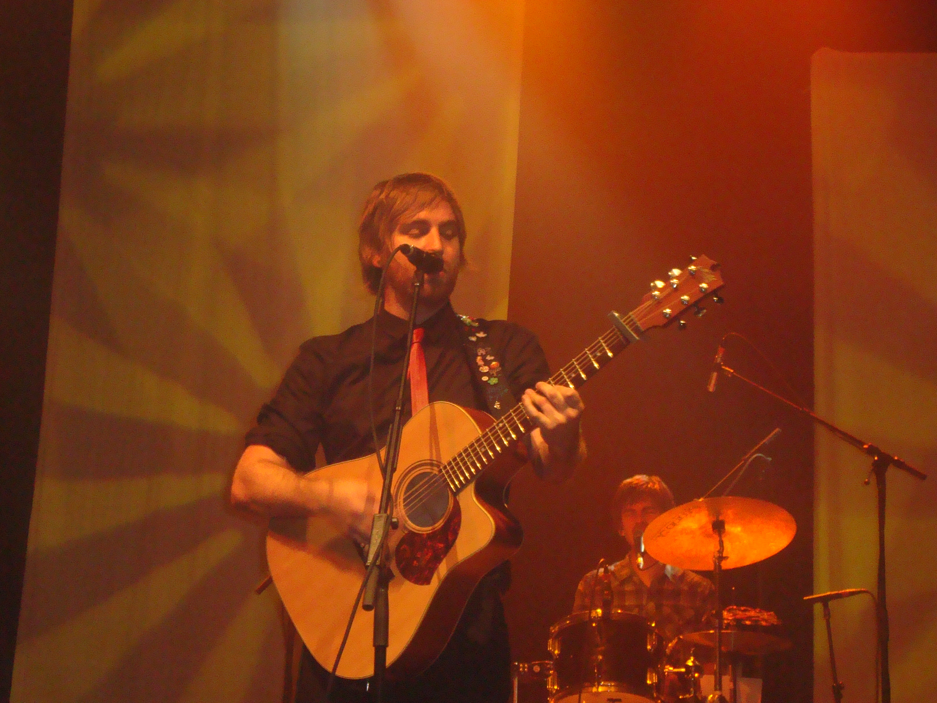 Taken at concert at Luna Park in Sydney.